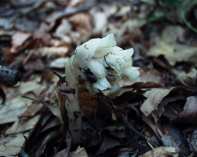 Monotropa hypopitys subsp.hypophegea, Italy, Lucatelli, Forest Umbra (see an other photography of this specimen : File:Monotropa hypopitys subsp.hypophegea 21-06-2003-2.JPG)